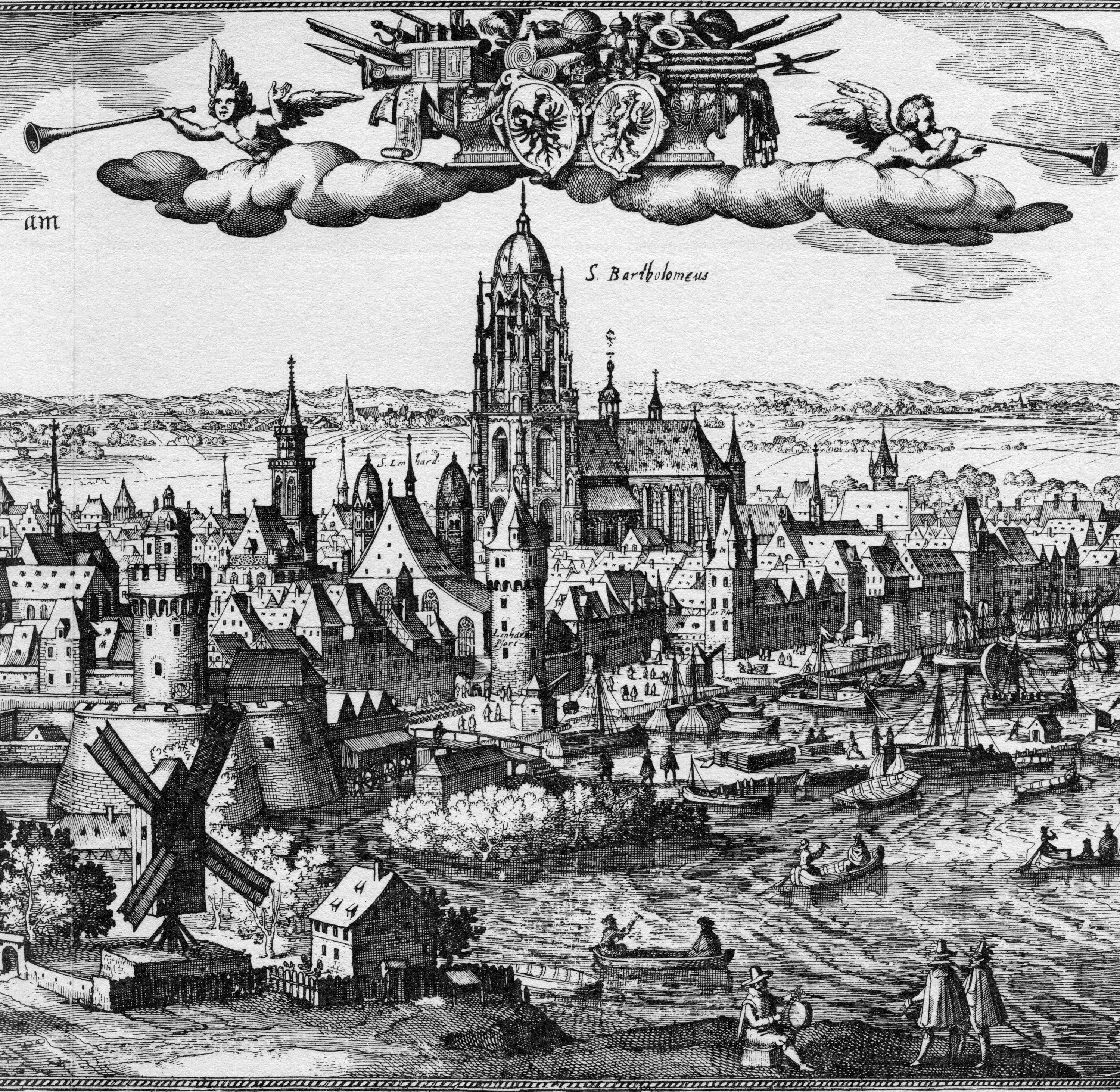 Frankfurt on the Main: View of the city as seen from the southwest (Detail)